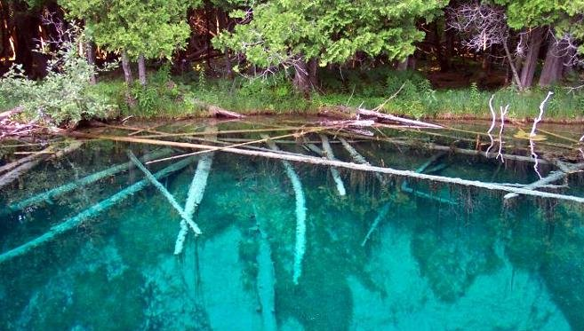 Kitch-iti-kipi underwater trees